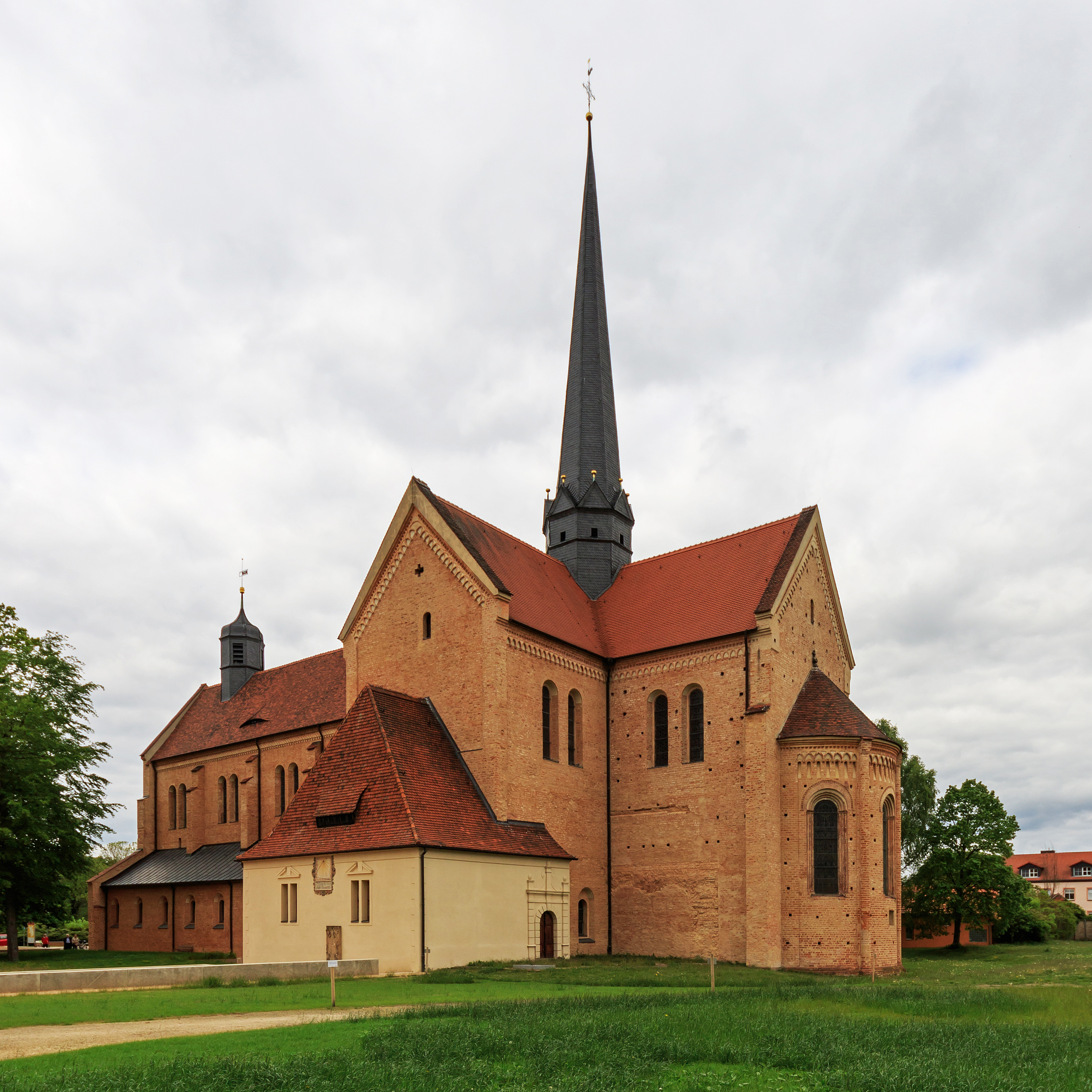 Doberlug-Kirchhain (Brandenburg, Germany): St. Mary Church